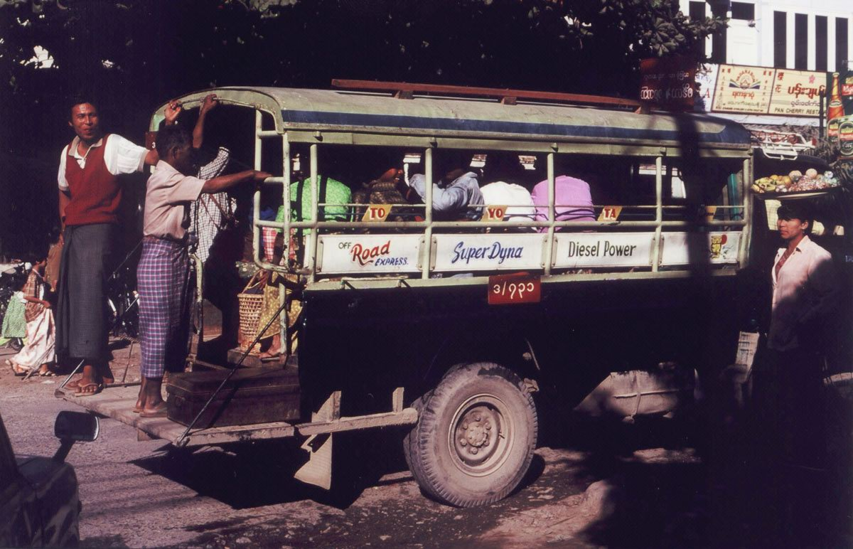 Truck changed into public bus in Mandalay, Burma - Myanmar.